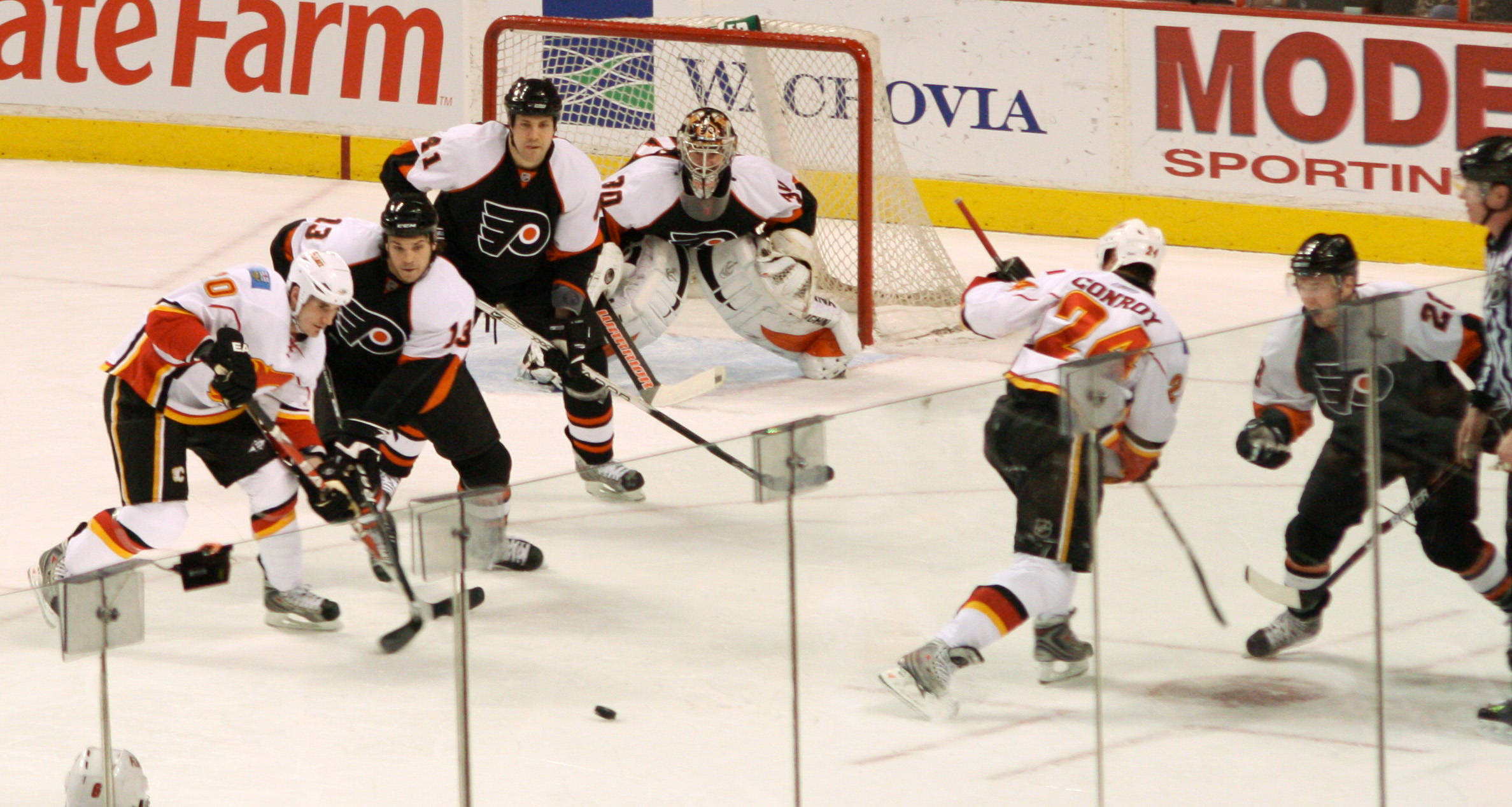 NHL game Philadelphia Flyers versus Calgary Flames. Players: Daniel Carcillo (PHI 13), Andrew Alberts (PHI 41), Antero Niittymäki (PHI 30), Claude Giroux (PHI 28), Craig Conroy (GCY 24) and Curtis Glencross (GCY 20)